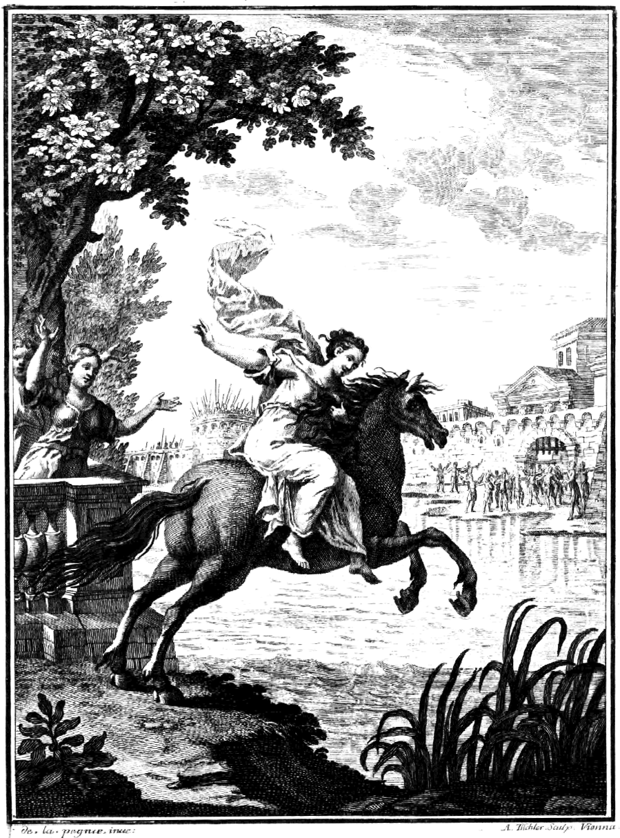 Johann Adolph Hasse - Il trionfo di Clelia - picture from the libretto - Vienna 1762